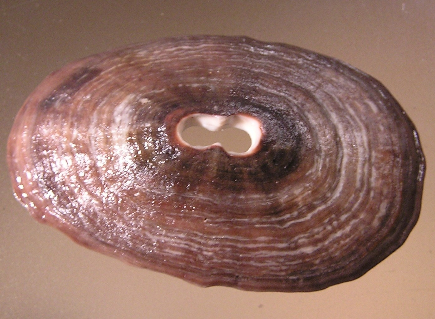 Fissurella crassa, Lamarck, 1822; a keyhole limpet from the family Fissurellidae; Chile